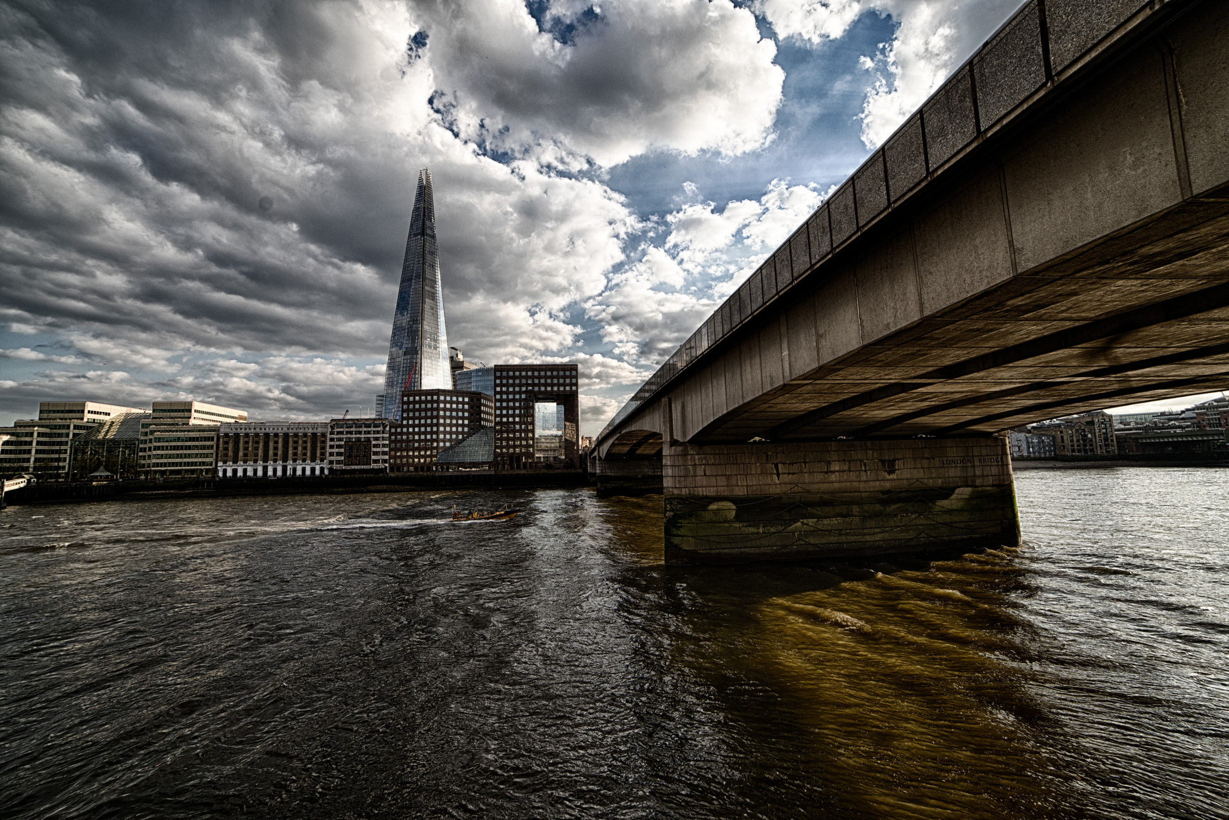 London Bridge and The Shard